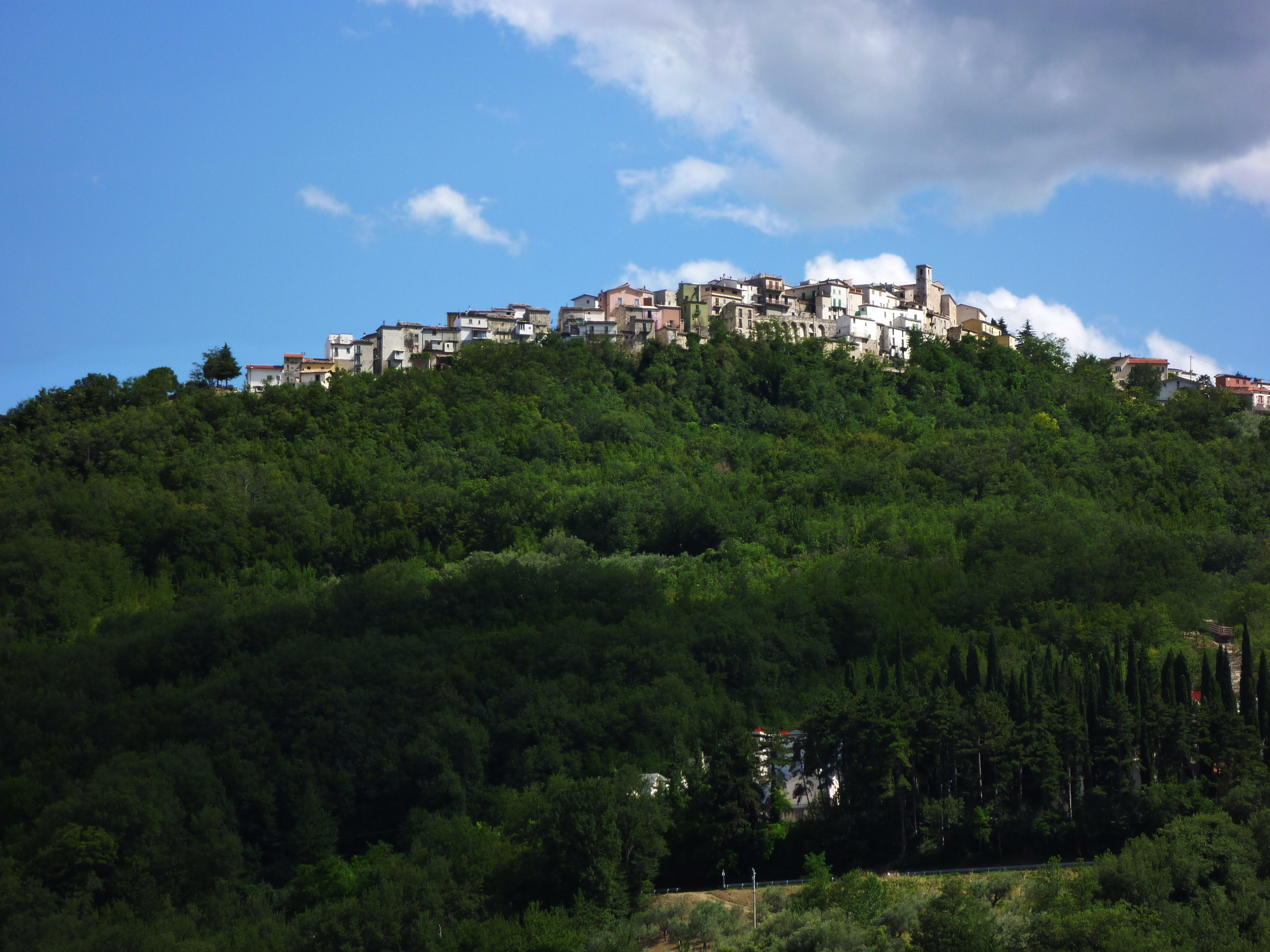 Panorama of Civitella Messer Raimondo, province of Chieti, Abruzzo, Italy